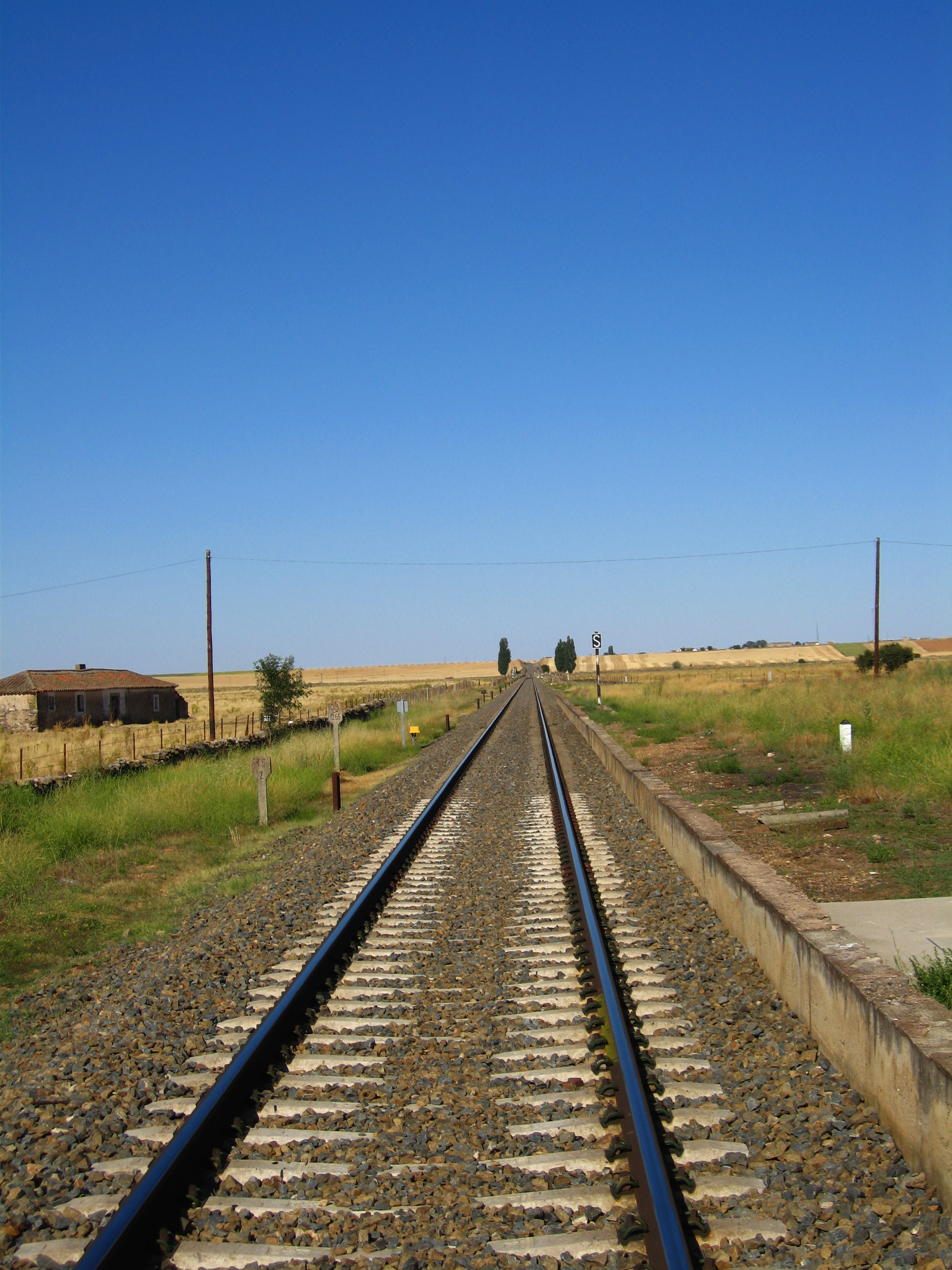 Vilar Formoso-Salamanca railway line at the Villar de los Alamos former railway station